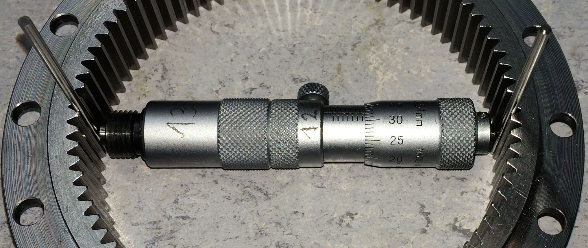 Measuring between pins in an internal gear